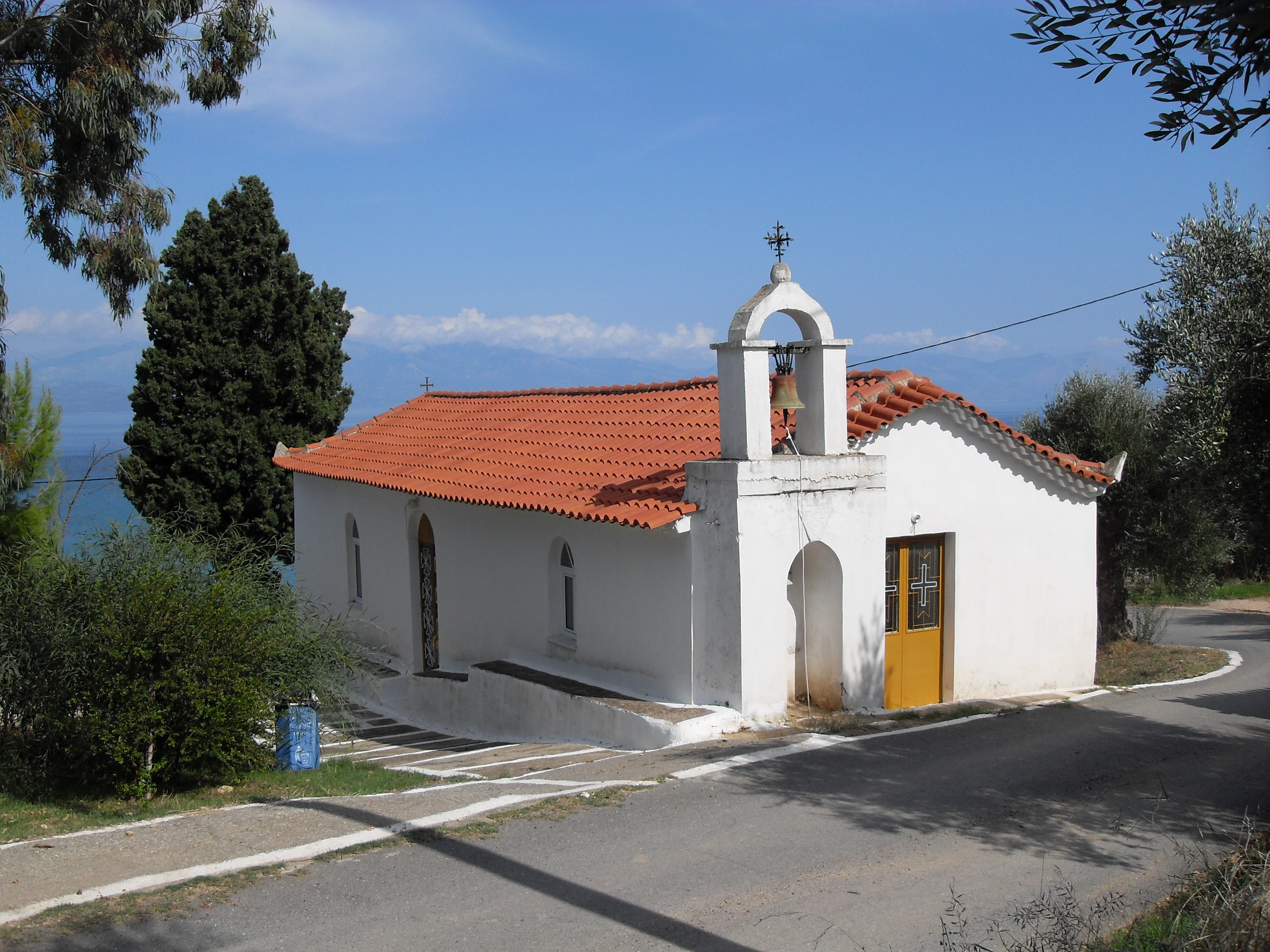 Aghia Triada church, Charokopio village, municipality of Koroni